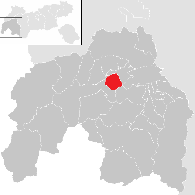 District Landeck